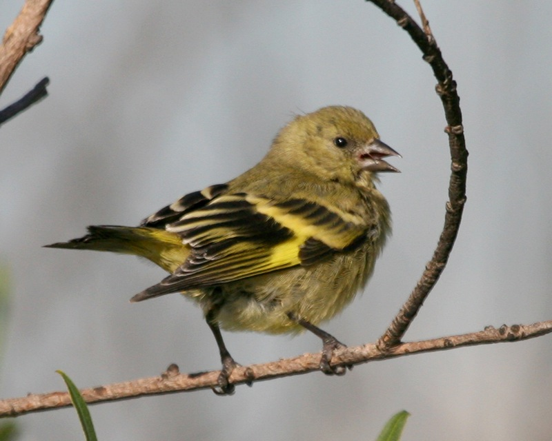 Hooded Siskin Carduelis magellanica 28th. March 2006 Costanera, Buenos Aires, Argentina Distribution